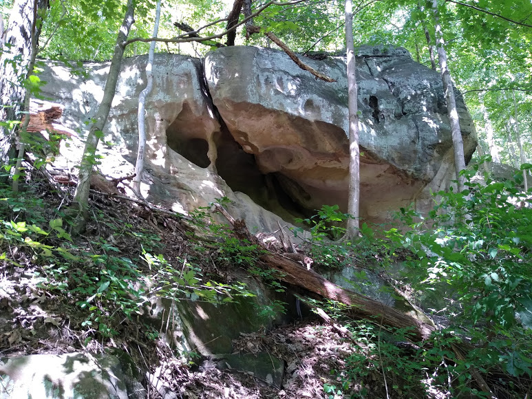 Ben Gourley